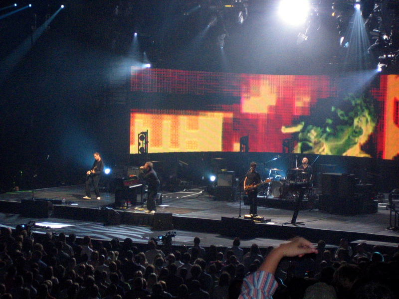 Took picture at a Coldplay concert when the band was promoting their album, X&Y